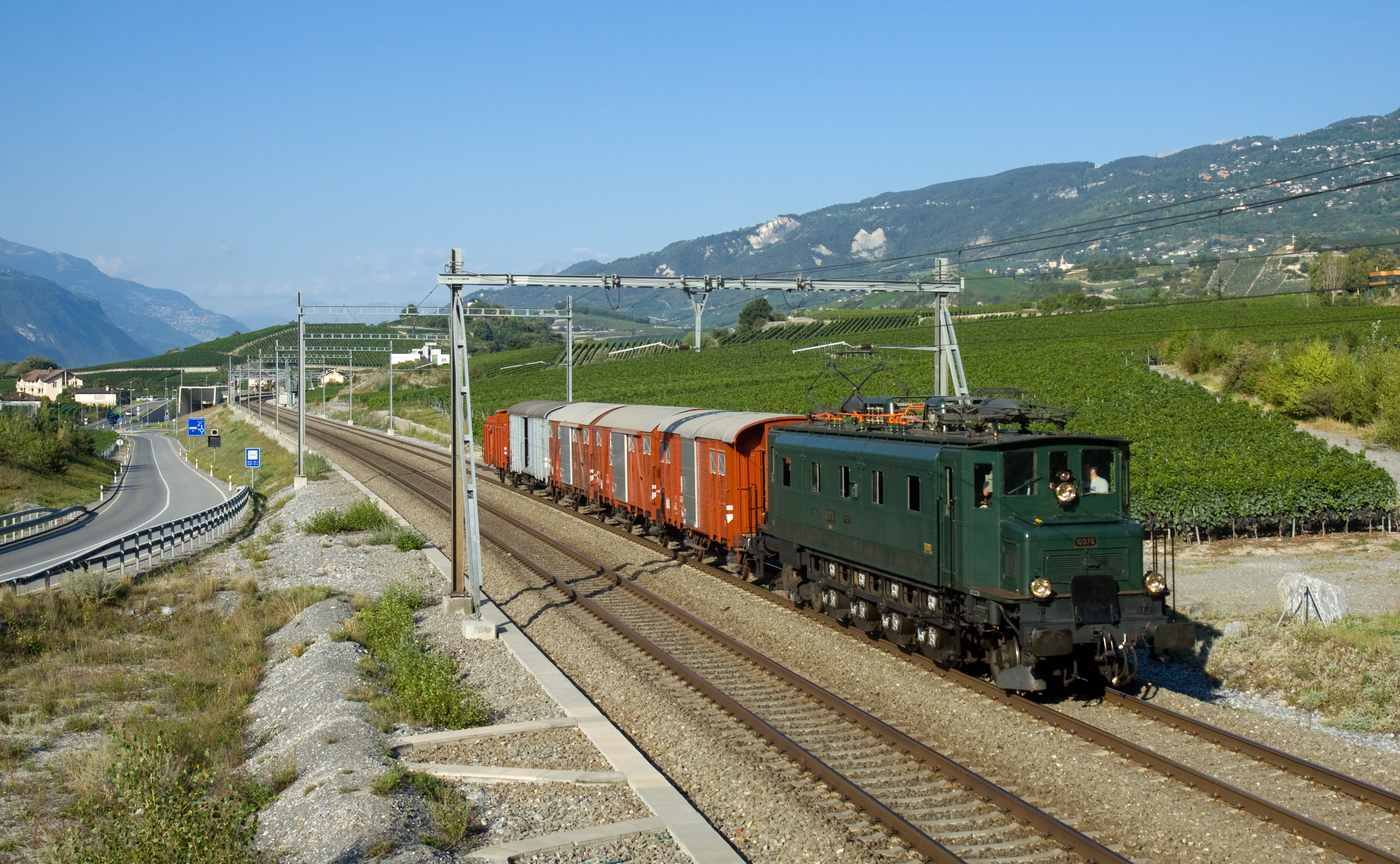 SBB Historic Ae 4/7 with a historic freight train on its way to Brig. The picture was taken just after Salgesch. The train was needed for a parallel run with a Ce 6/8 III "crocodile" on the southern Lötschberg ramp, which was organised for the 10 years SBB Historic jubilee.